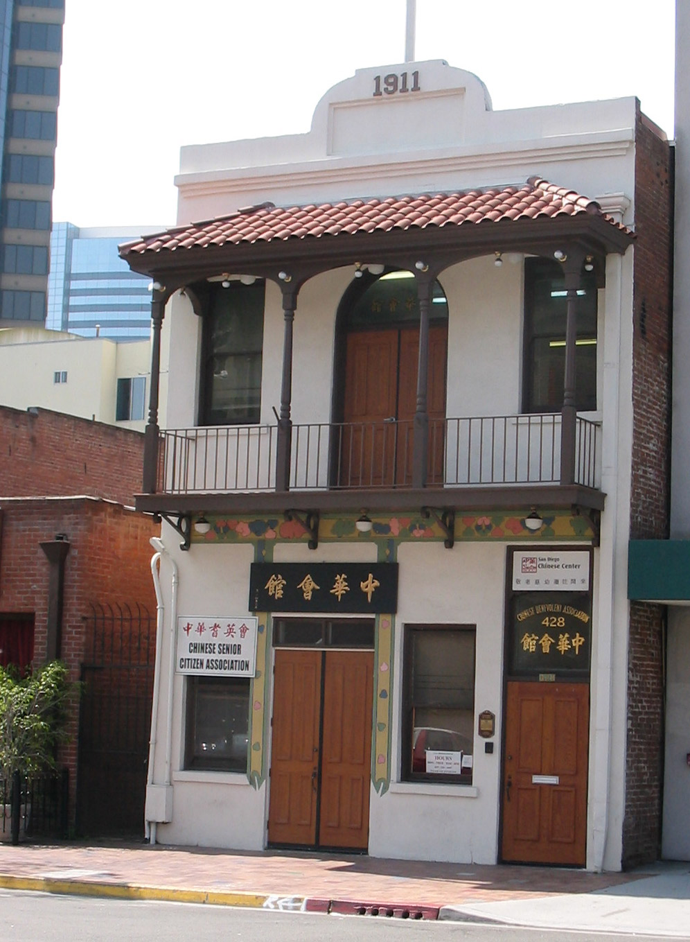 Another example of the Chinese vernacular architecture, this time with Some spanish touches. In downtown San Diego. One of I think two remaining buildings from what was Chinatown.china-town